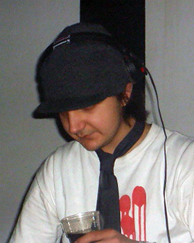 Limewax performing at Therapy Sessions in Leeds, December 2007.